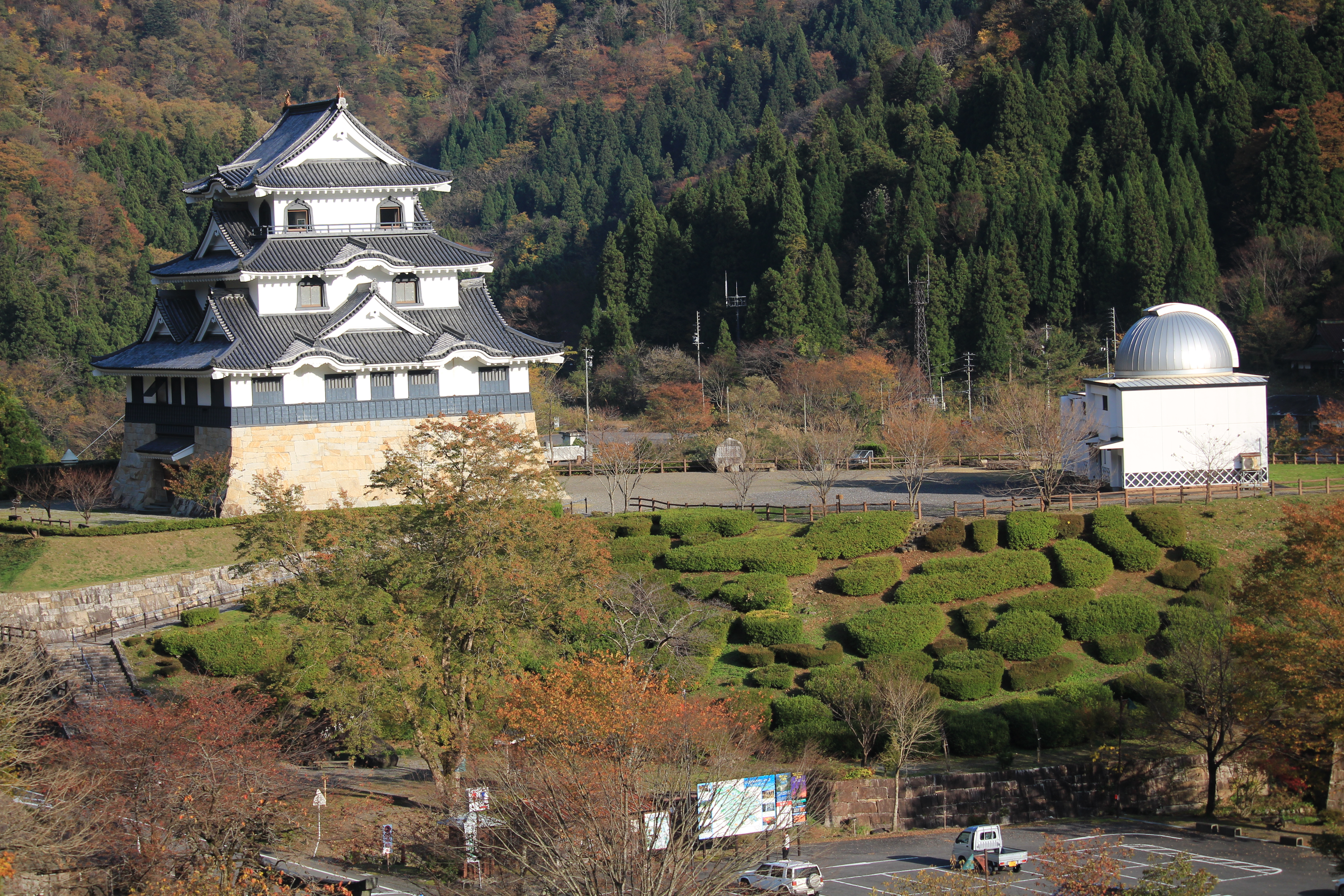 Fujihashi Castle and Nishimino Observatory, in Ibigawa, Gifu prefecture, Japan.